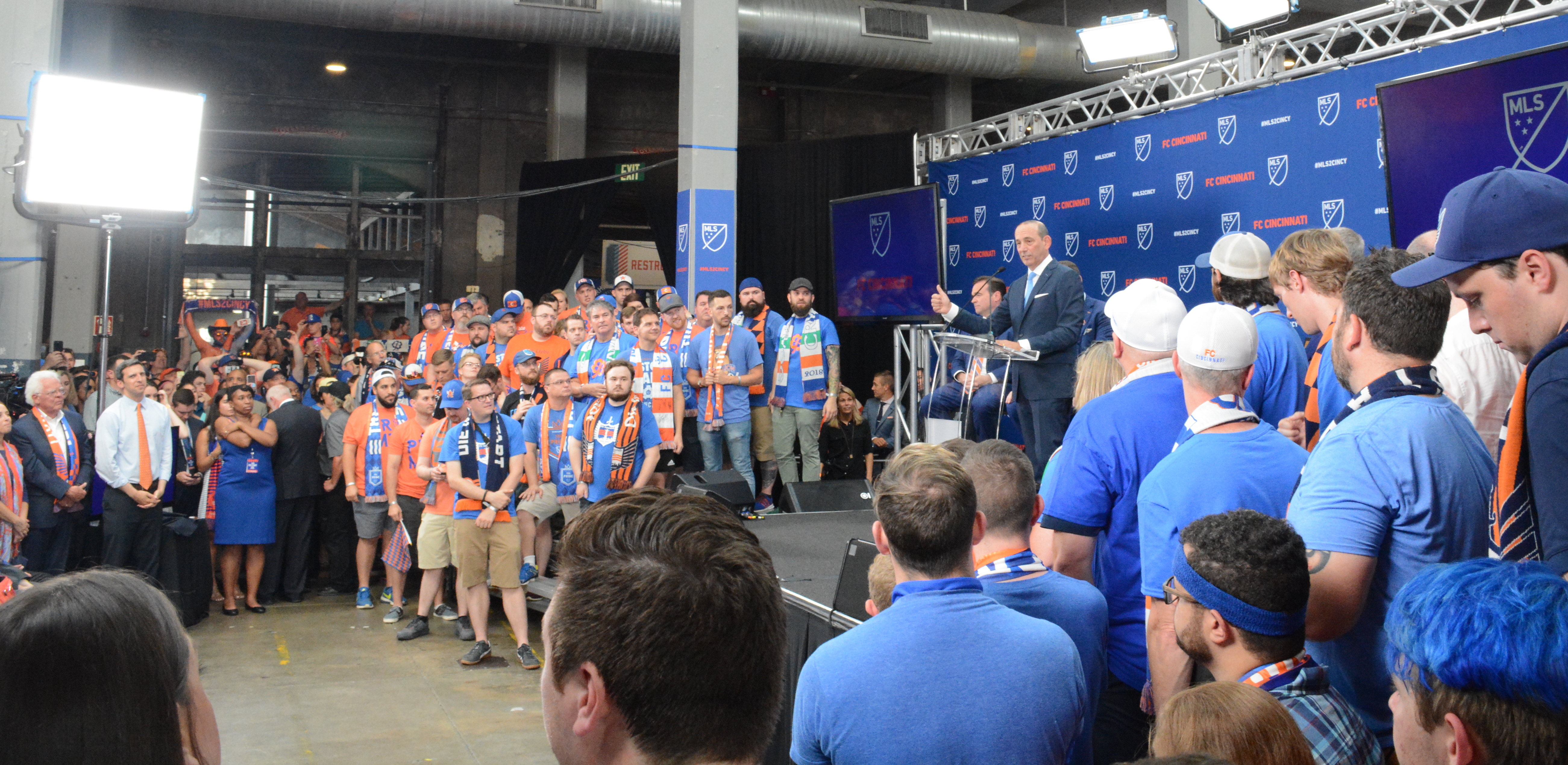 This photo was taken at an FC Cincinnati (FCC) event at Rhinegeist Brewery in Over-the-Rhine, Cincinnati, Ohio, USA on May 29, 2018. At the event, Major League Soccer commissioner Don Garber officially awarded an MLS franchise to FCC. Other speakers at the event included FCC general manager Jeff Berding, FCC owner and CEO Carl Lindner III, Cincinnati mayor John Cranley, and ESPN soccer commentators Adrian Healey and Taylor Twellman. The event was simultaneously livestreamed to a public party at Fountain Square in downtown Cincinnati.